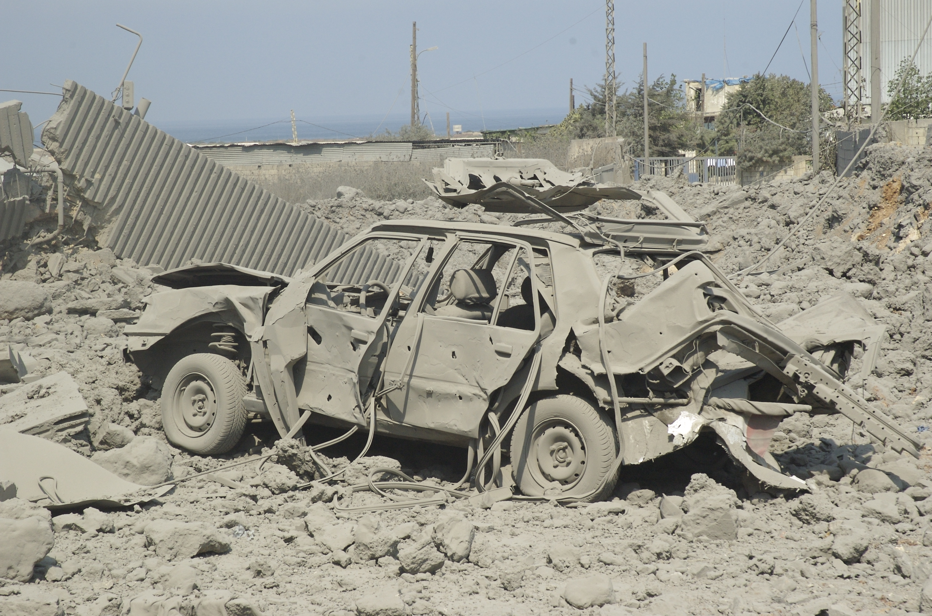 A car in Beirut destroyed by air bombardment during the 2006 Israel-Lebanon conflict.